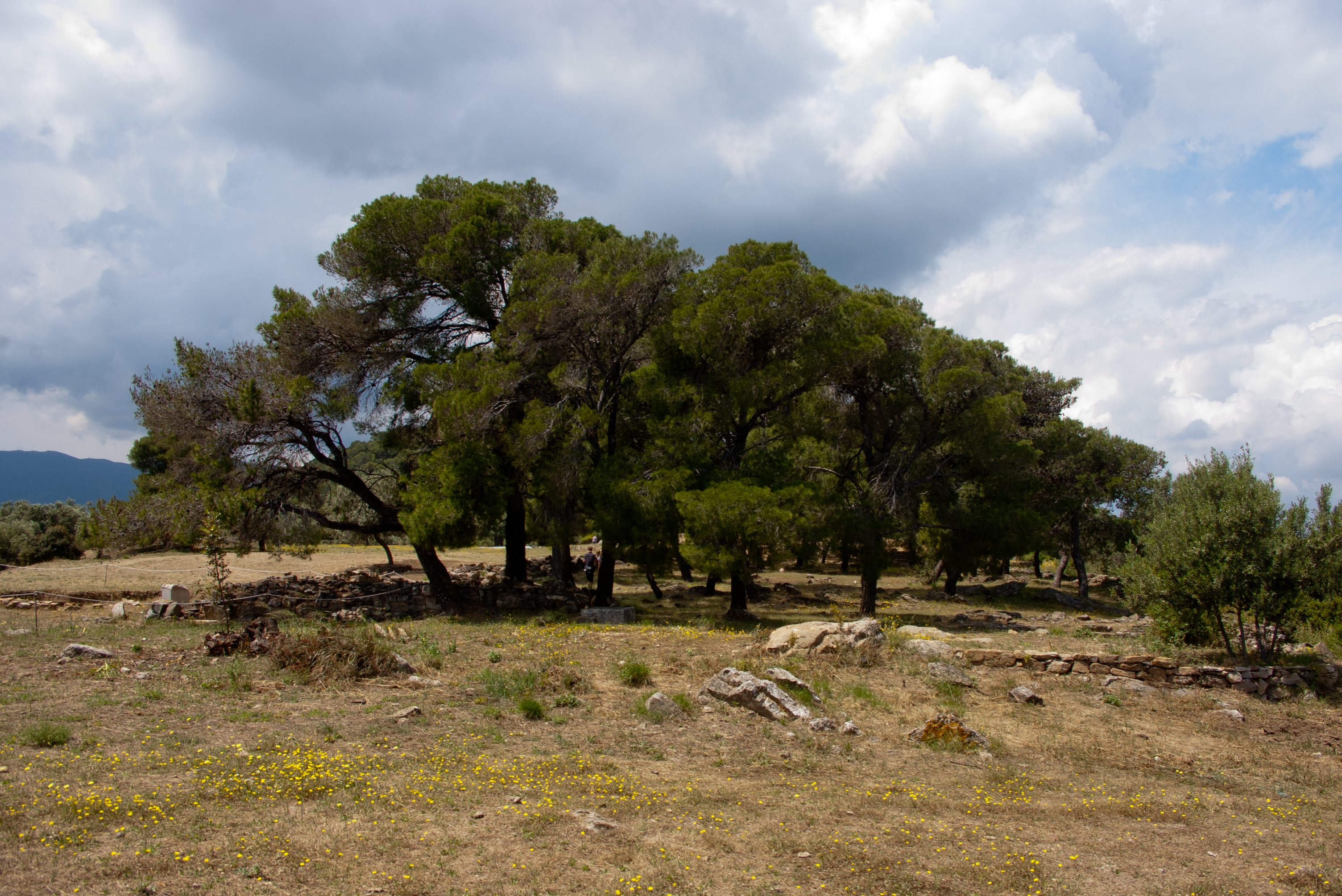 The site of the temple of Poseidon, Kalaureia and the location of the suicide of Demosthenes.